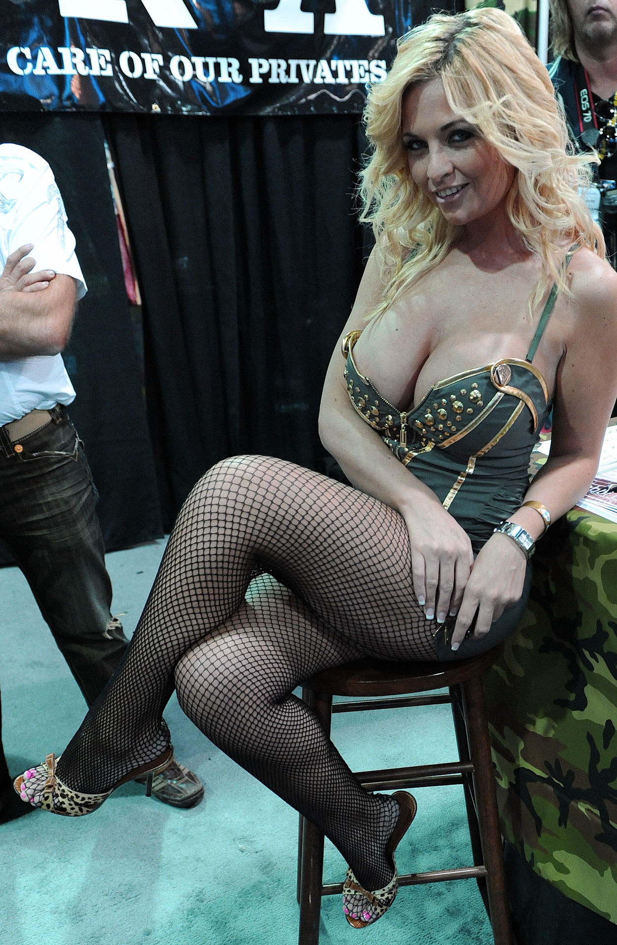 Bobbi Eden at AVN Adult Entertainment Expo 2011